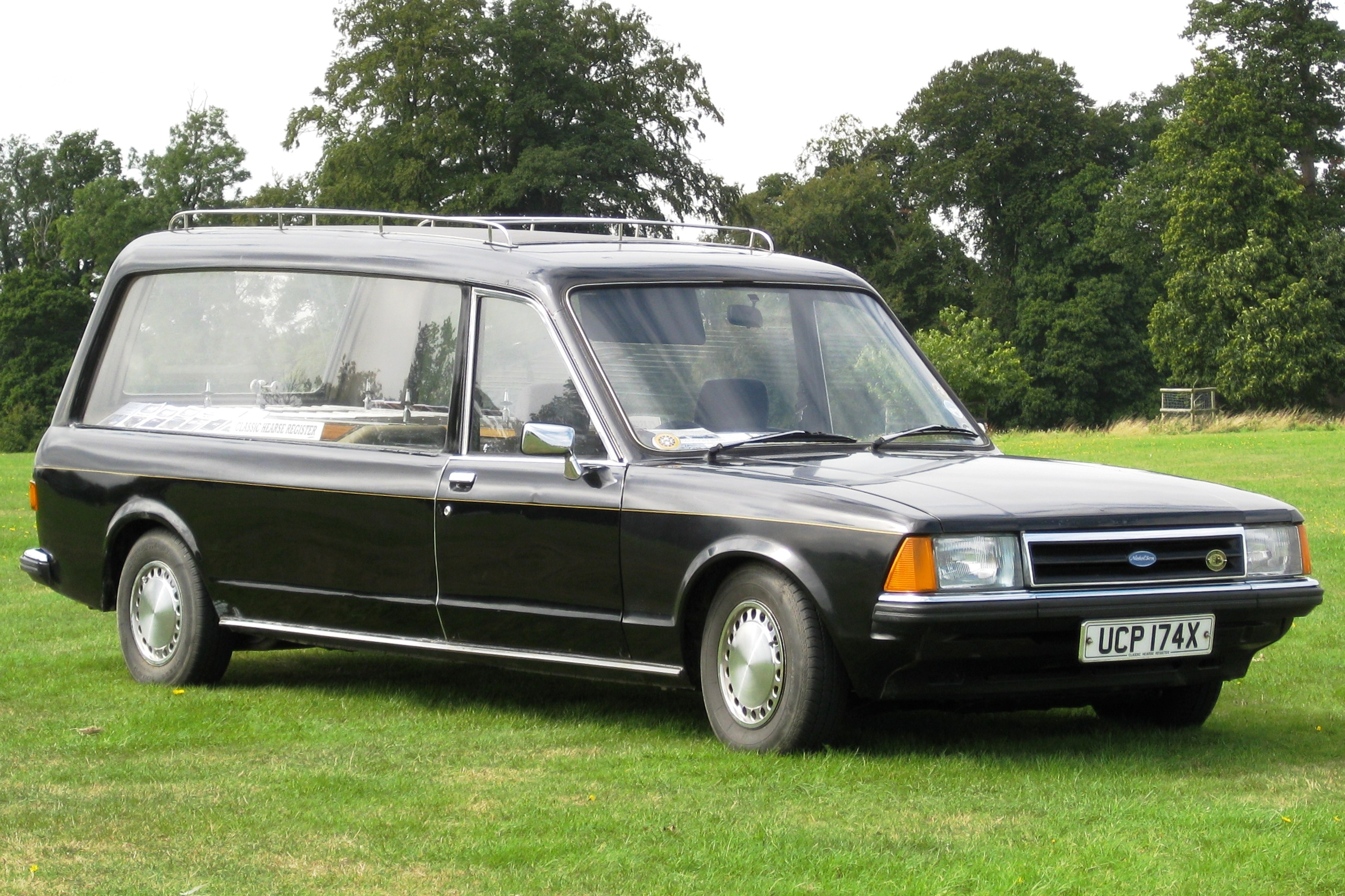 Ford Granada based hearse adapted by Woodall Nicholson